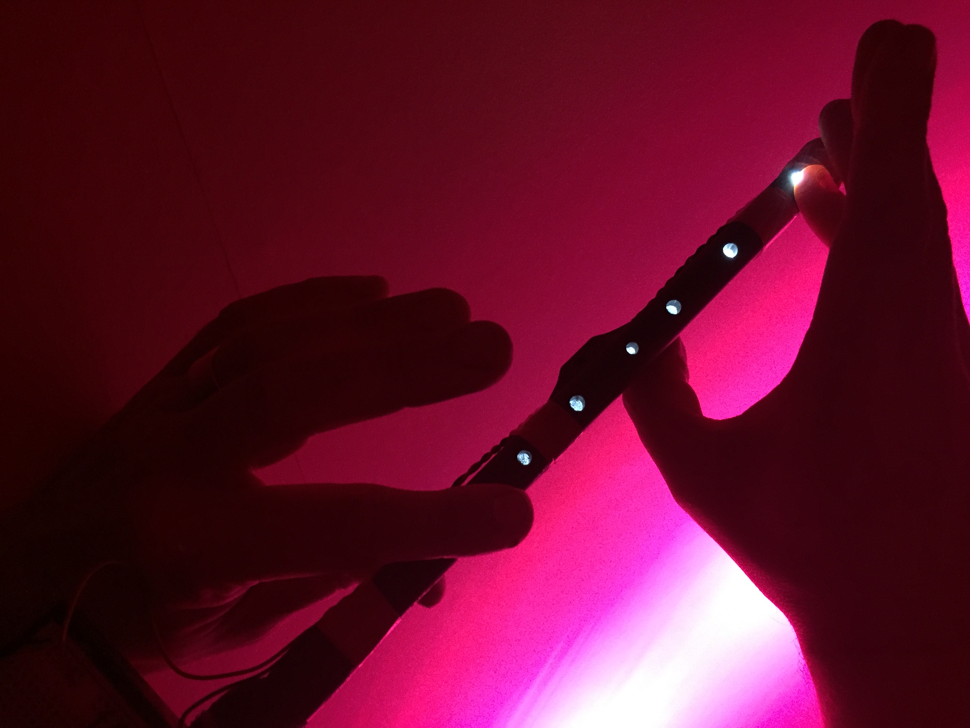 An electric bagpipe chanter, fitted with an optical pickup using a white LED light source